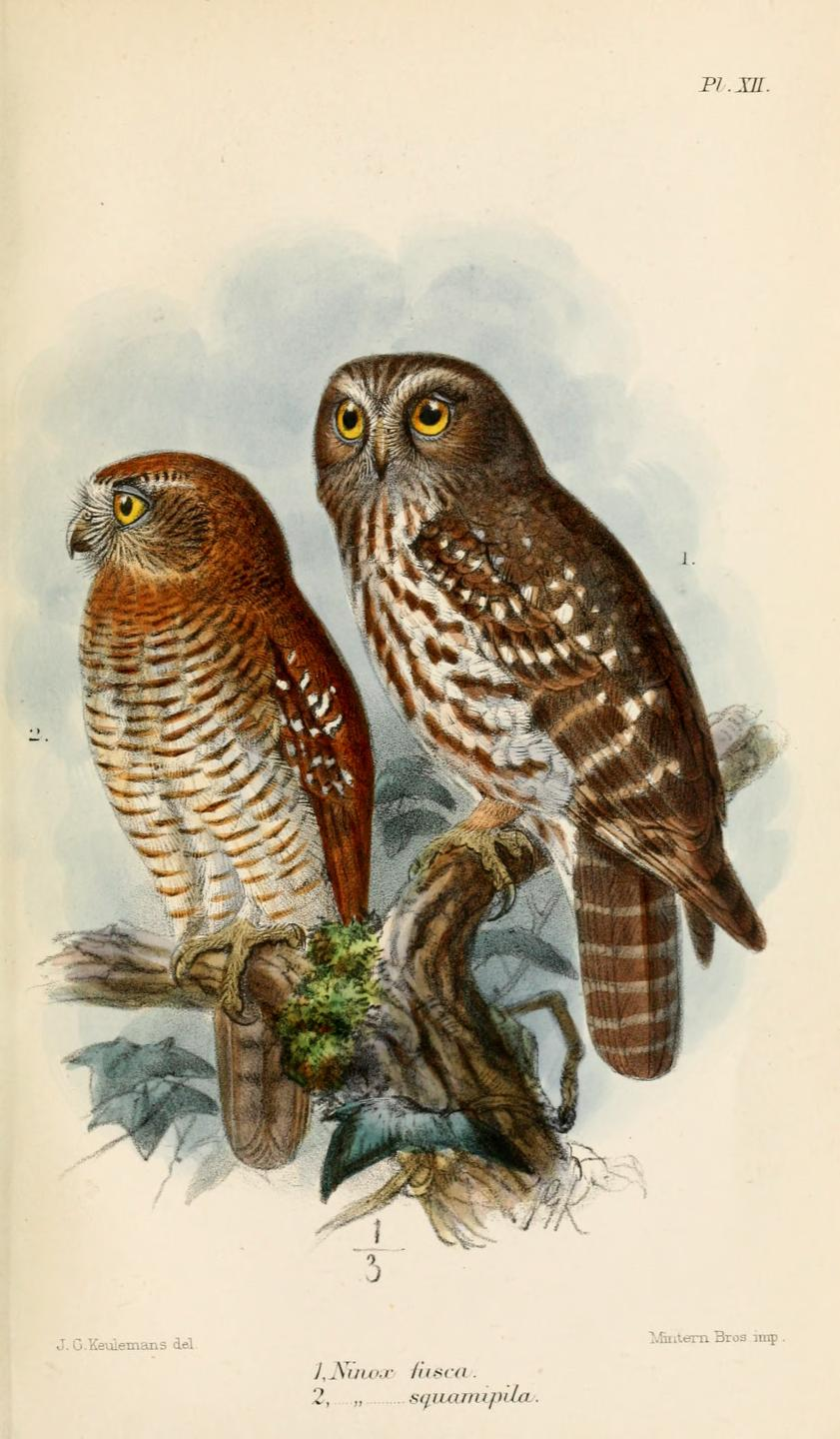 Ninox fusca = Ninox boobook fusca, Timor Boobook (right); and Ninox squamipila, Moluccan Hawk-owl (left)